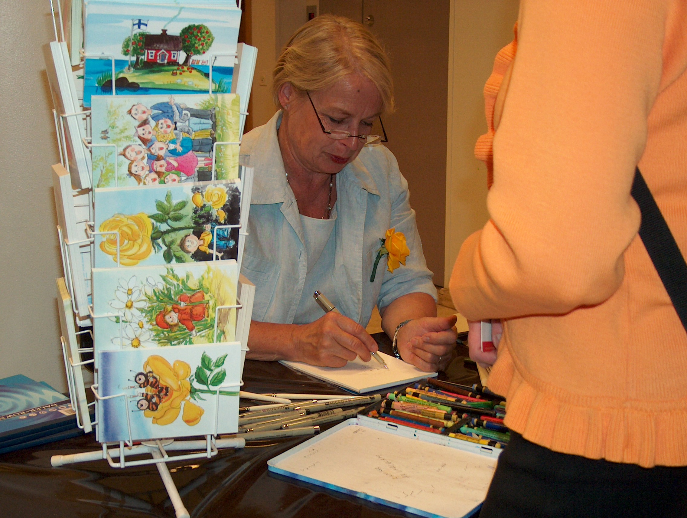 Illustrator Virpi Pekkala in a book shop on World Book Day 2006 in Helsinki